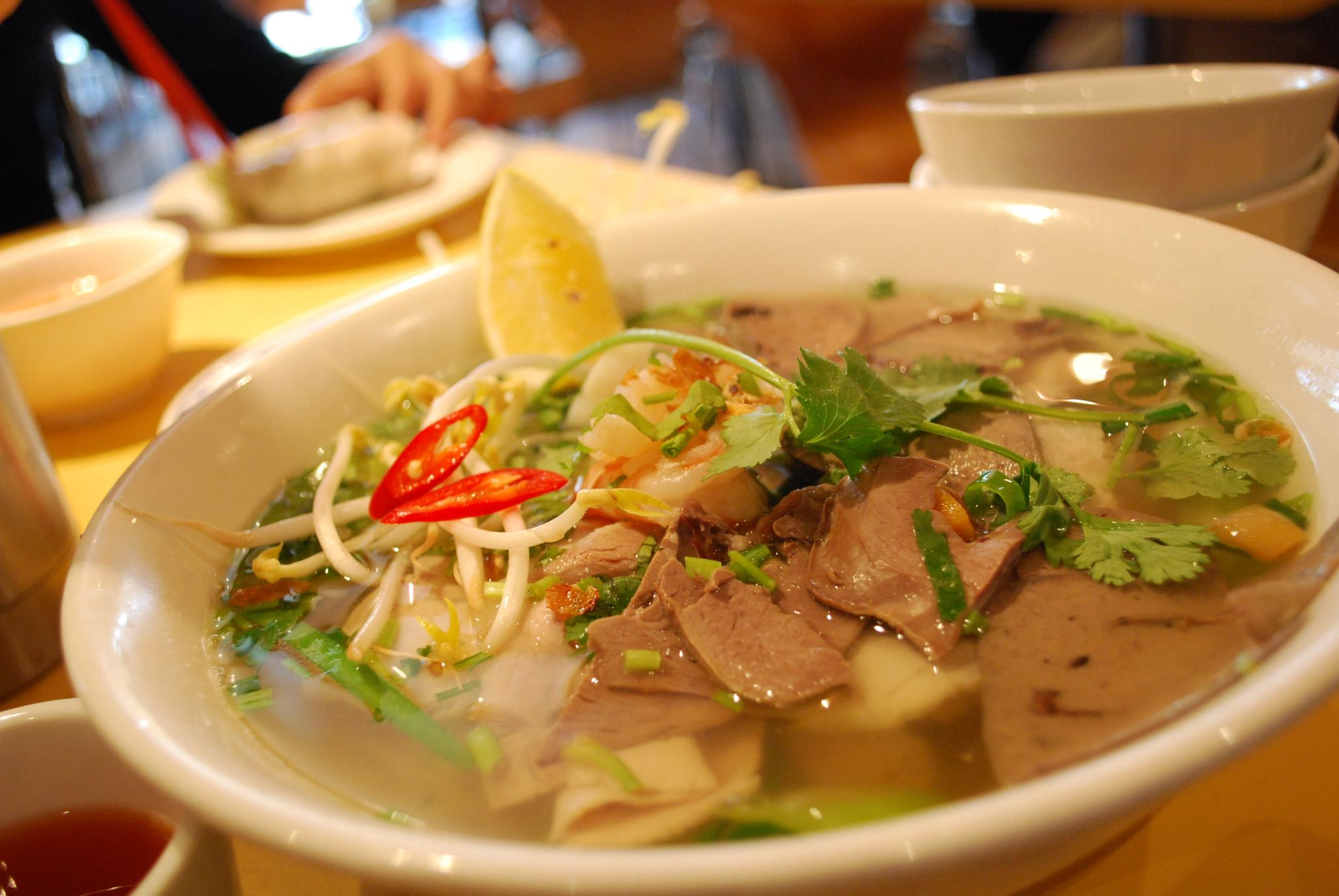 Great rice paper rolls require a chewy skin and a good filling. The rice paper rolls at Thanh Ha ticks both boxes with a chewy just moist rice paper wrapper and a filling of shredded lean pork and pork rind with enough shredded lettuce to make it moist. The requisite sprinkle of ground toasted rice gives the pork rind a nutty toasty flavour, and the shredded shiso leaf and mint lends sophistication to a simple snack. The Cambodian Rice Noodle Soup is also good with lean pork, heart and liver all poached whole to perfection and then sliced thinly so that each of the stringy, chrunchy and floury textures hold their own. Added to this is a scattering of rendered cubes of pork fat for some extra porky flavour. Yum! It almost makes the slice of calamari and peeled prawn extraneous. Banh Cuon Thanh Ha Restaurant (03) 9429 8130 Shp 1/ 172 Victoria St Richmond VIC 3121 Reviews: - Thanh Ha - Mietta's